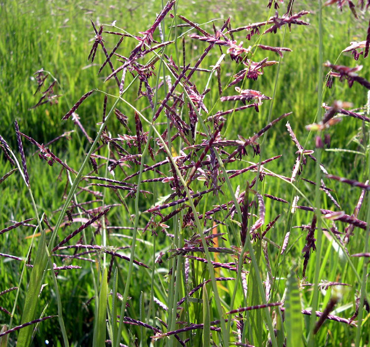 Pleuropogon californicus — Annual semaphoregrass (endemic bunchgrass of California). At the Humboldt Bay National Wildlife Refuge, Humboldt County, coastal Northern California.